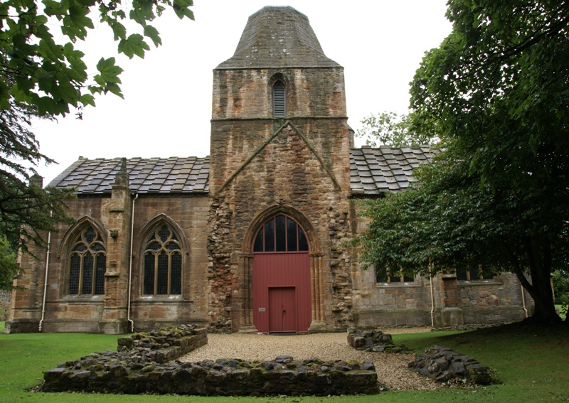 Seton Collegiate Church, East Lothian, Scotland - from the west